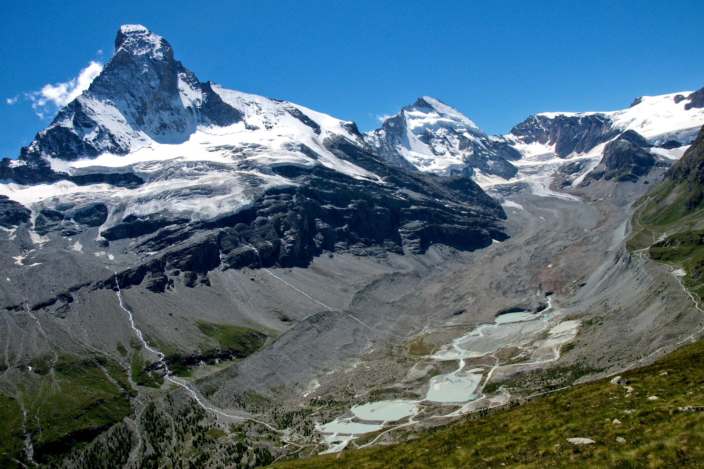 Zmutt Valley near Zermatt. The Matterhorn (left) and the Dent d'Hérens (right).